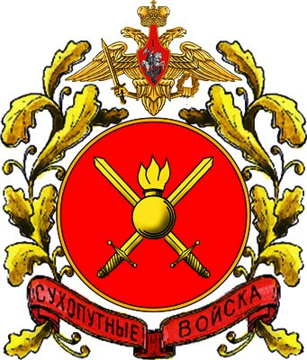 great emblem of the Sukhoputnjye vojska Rossijskoj Federatsii (Сухопутные войска Российской Федерации), the Ground Forces of the Russian Federation.